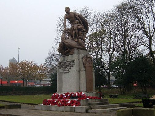 War memorial, Shaw and Crompton, Oldham, Greater Manchester, England. This magnificent memorial stands in a small public park beside the High Street and situated between the library and the health centre.